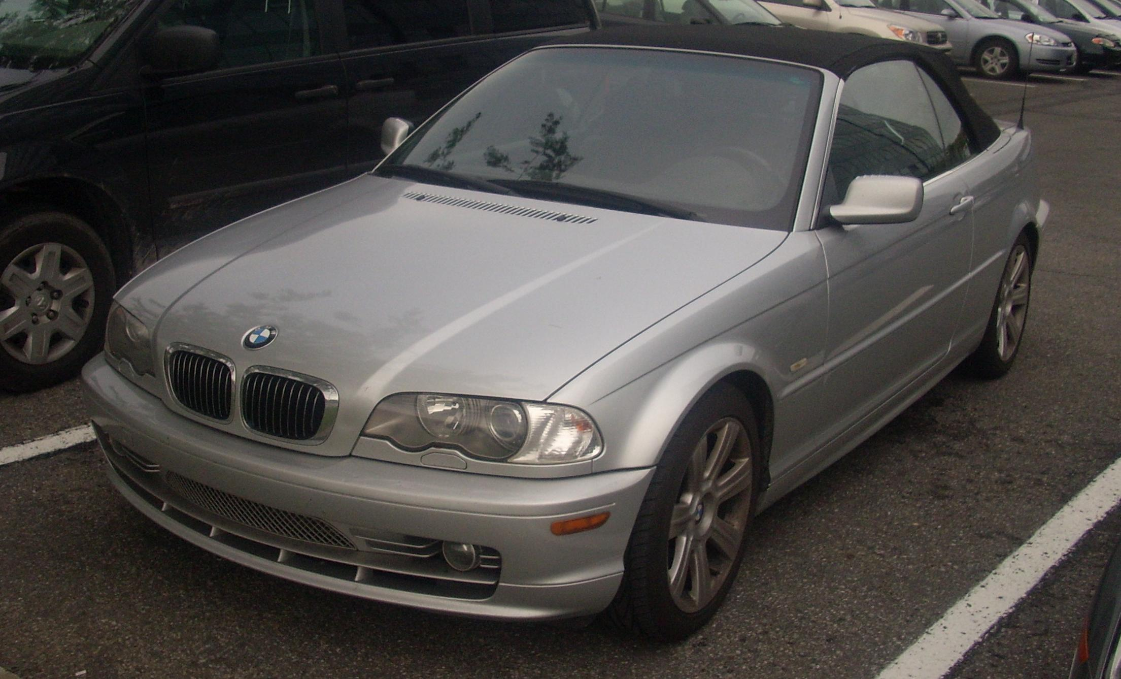 2002-2005 BMW 3-Series photographed in Montreal, Quebec, Canada.